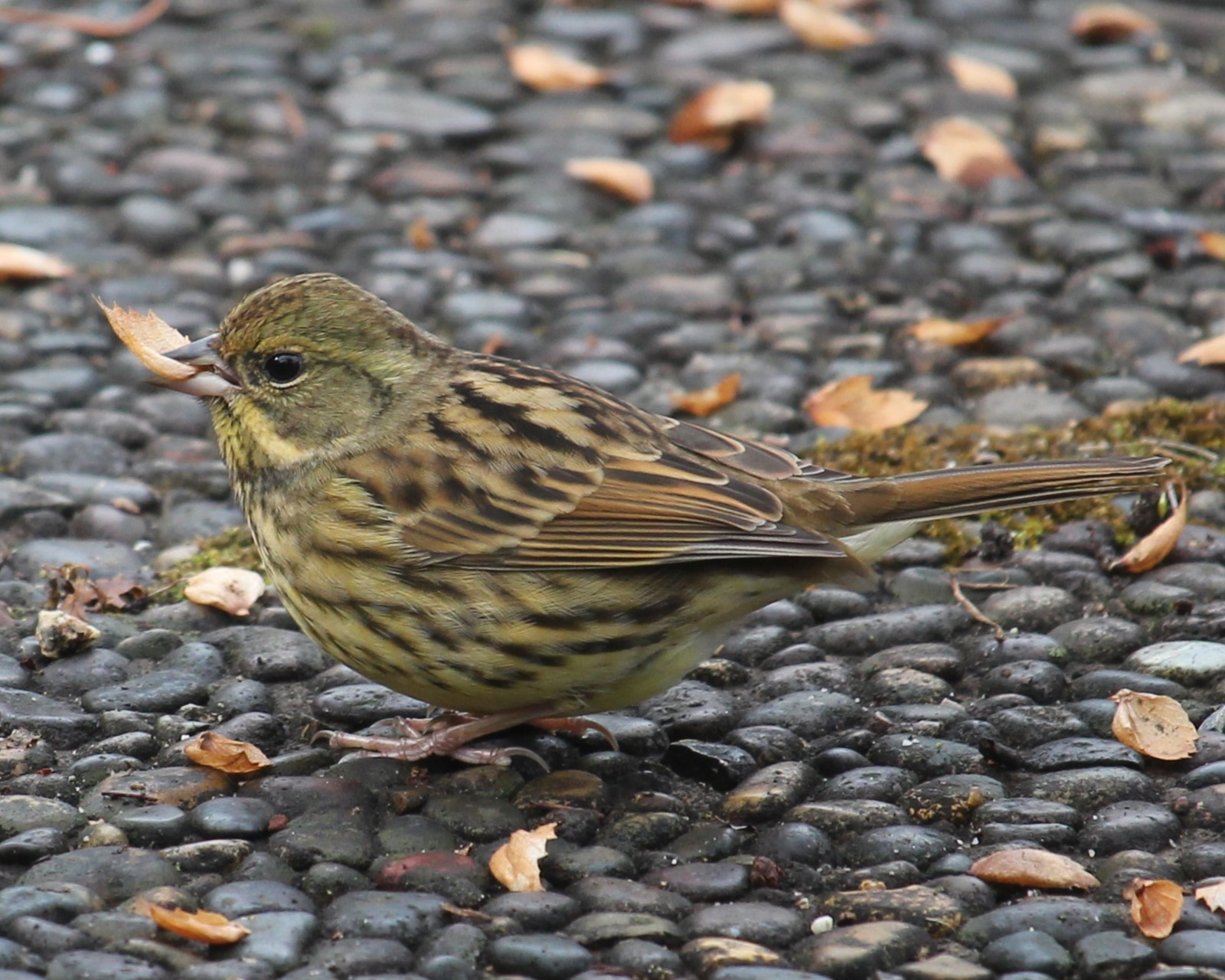 Emberiza spodocephala personata (Black-faced Bunting), female in Japan.